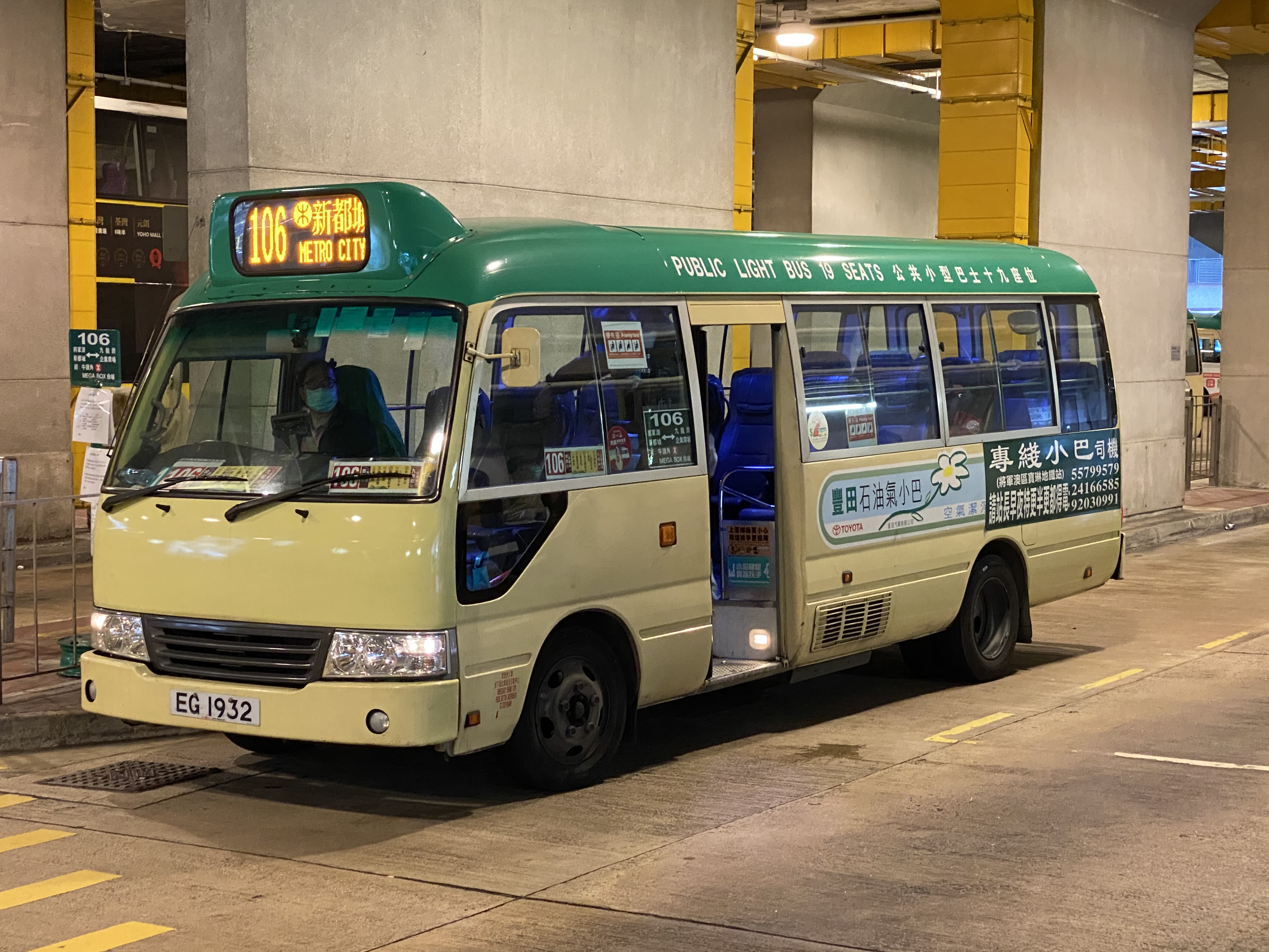 中文（香港）: This photo is taken in Kowloon Bay.